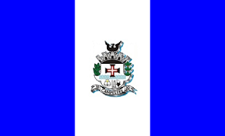 Flags of the city of Campestre, Minas Gerais, Brazil.